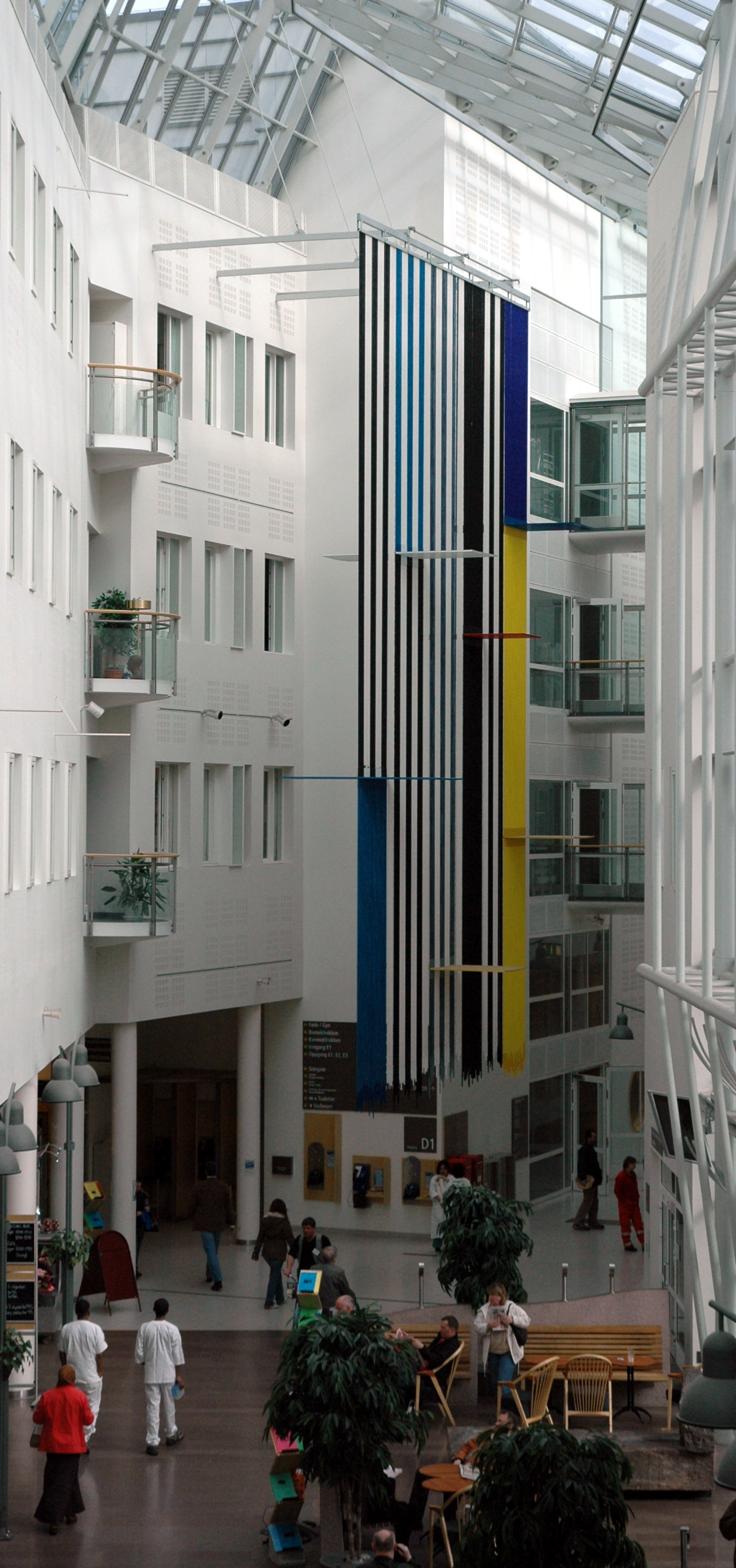 "The Glass Street", the main public area of Rikshospitalet hospital in Oslo, with the art object Balanse hanging at the crossroad. My own photo.